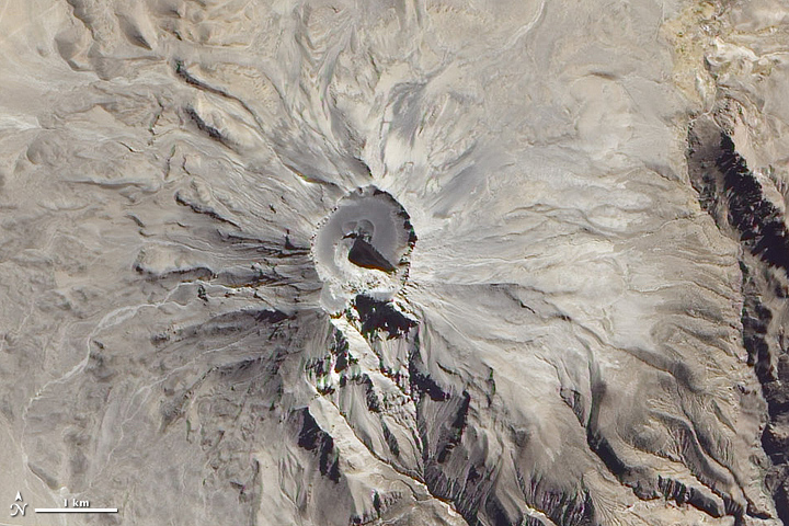 Satellite image of Ubinas Volcano in Peru. Caption by Holli Riebeek:"Free of vegetation, the gray and white lava-covered peak of the Ubinas Volcano looks like it could be located on the Moon or some other extraterrestrial body. The Advanced Land Imager (ALI) on NASA’s EO-1 satellite captured this true-color image of the Peruvian volcano on July 24, 2010. The barren summit hints at recent volcanic activity, and in fact, Ubinas is Peru’s most active volcano. Apart from venting ash frequently, Ubinas has erupted many times since 1550. The last eruption started on March 25, 2006. As a result of its frequent activity, the steeply sloped peak is coated with lava. A canyon on the southern slope is evidence of a collapse in the volcano’s past. A small circular caldera crowns the volcano. A little more than a kilometer across, the caldera is defined by walls that range from 80 to 300 meters high. Dark-colored ash and tiny volcanic rocks (lapilli) carpet the crater floor. An ash cone rises from the center of the crater, casting a dark triangular shadow. Within the shadow of the ash cone lies a white, funnel-shaped inner crater that is 200 meters deep. Ubinas is one of many volcanoes that dot the high desert plateau east of Lake Titicaca in southern Peru. In the Central Volcanic Zone in the Andes, mountains and volcanoes grow as the Nazca plate, part of Earth’s crust under the southeast Pacific Ocean, sinks beneath the South American plate. The pressure of the collision wrinkles the South American plate, pushing the Andes Mountains up. As the material in the Nazca plate melts deep in the Earth, some rises to the surface through weak areas in the South American plate. Along with South America’s other volcanoes, Ubinas is part of the Pacific Ring of Fire, a chain of volcanoes around the Pacific Ocean that formed because of tectonic activity."